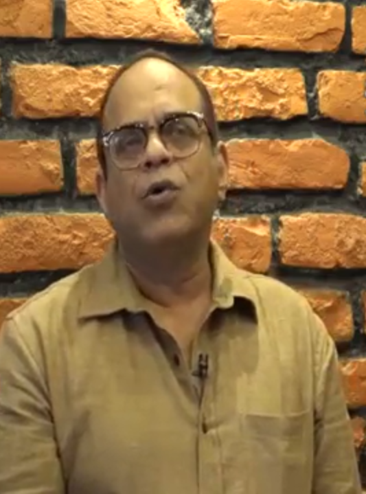 Rajatava Dutta, in an interview, in 2017. Screenshot taken from a longer YouTube video which is released under the Creative Commons license.